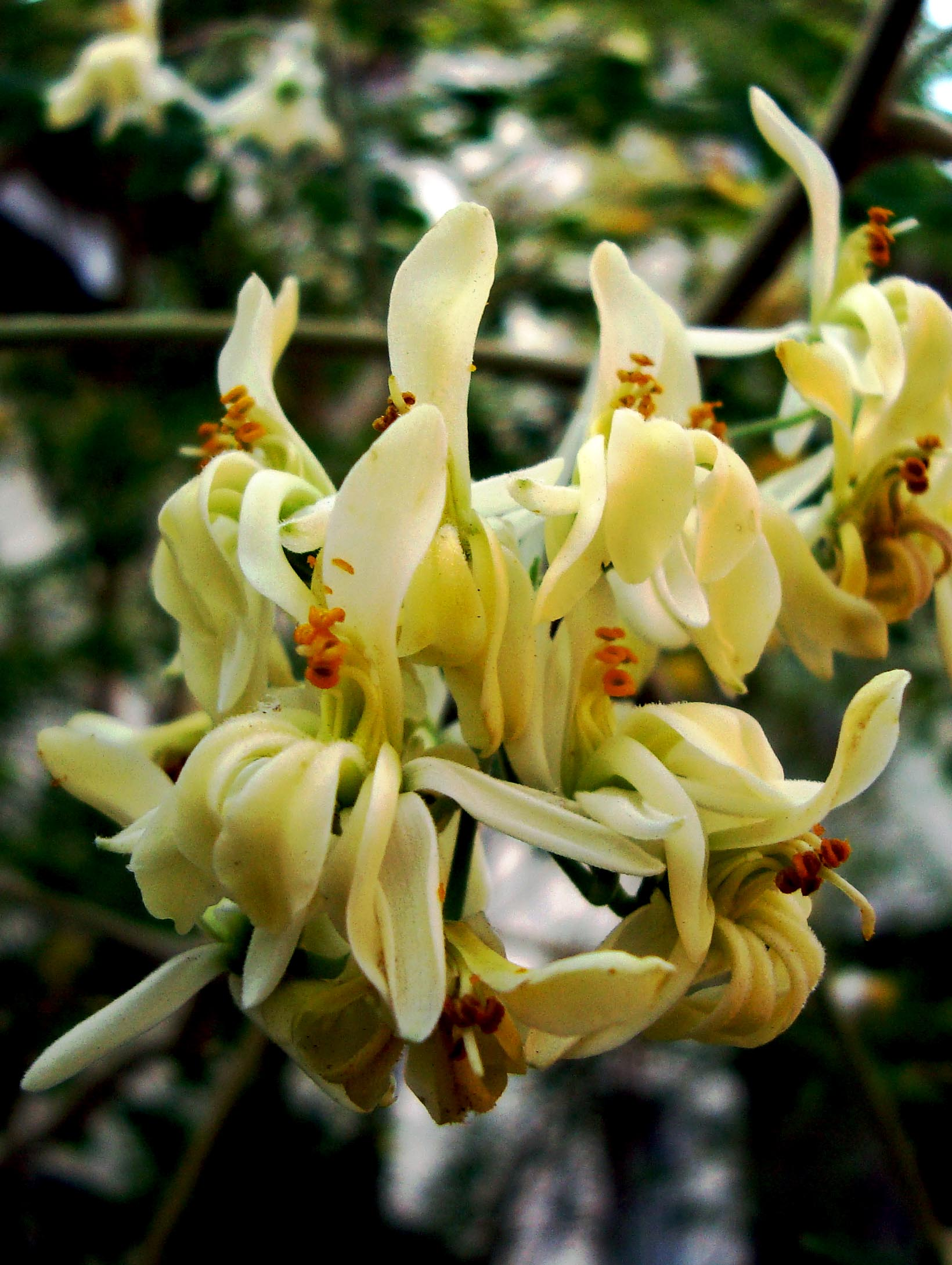 Moringa oleifera